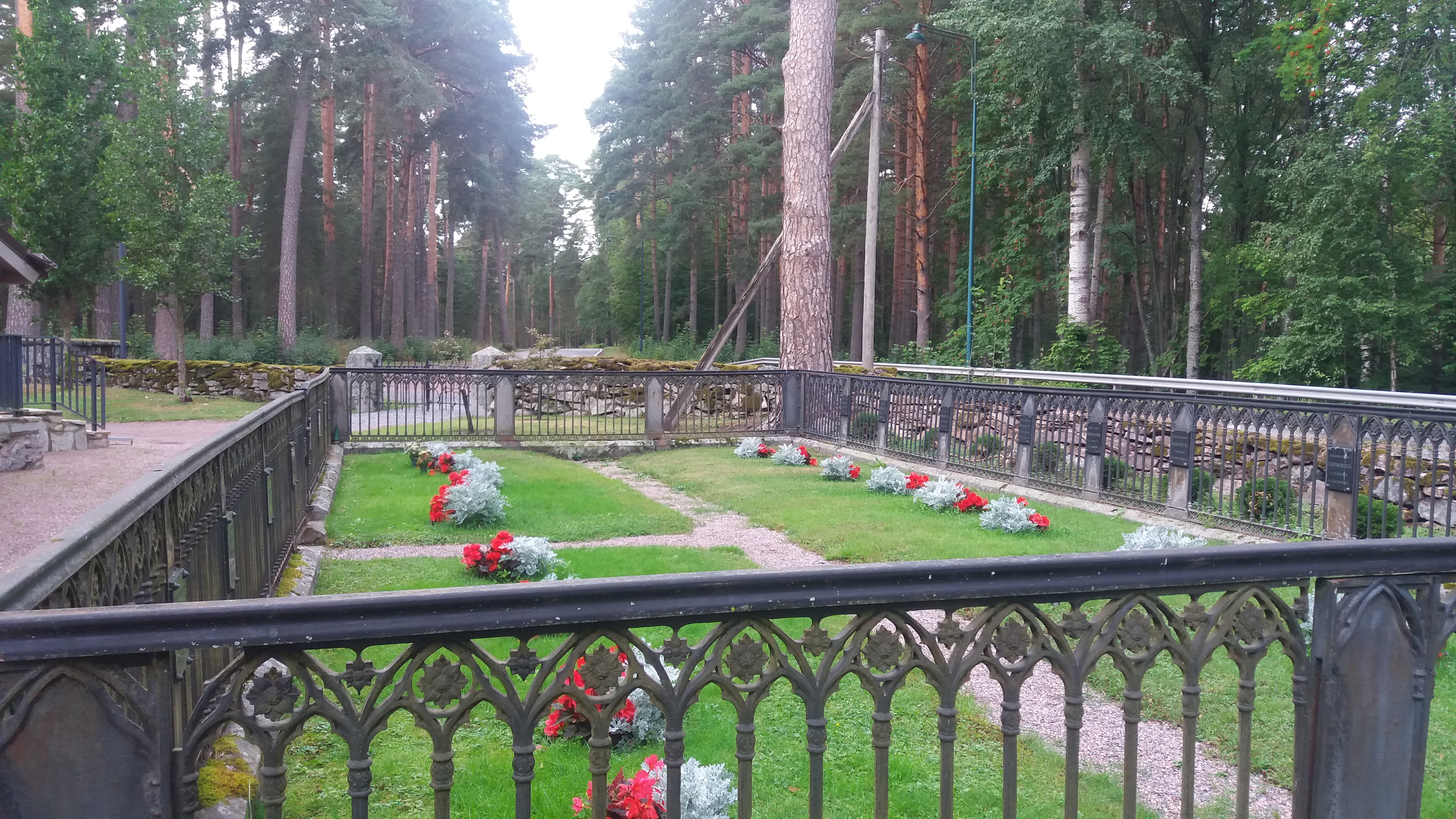 Cedercreutz family grave, Köyliö, Finland.